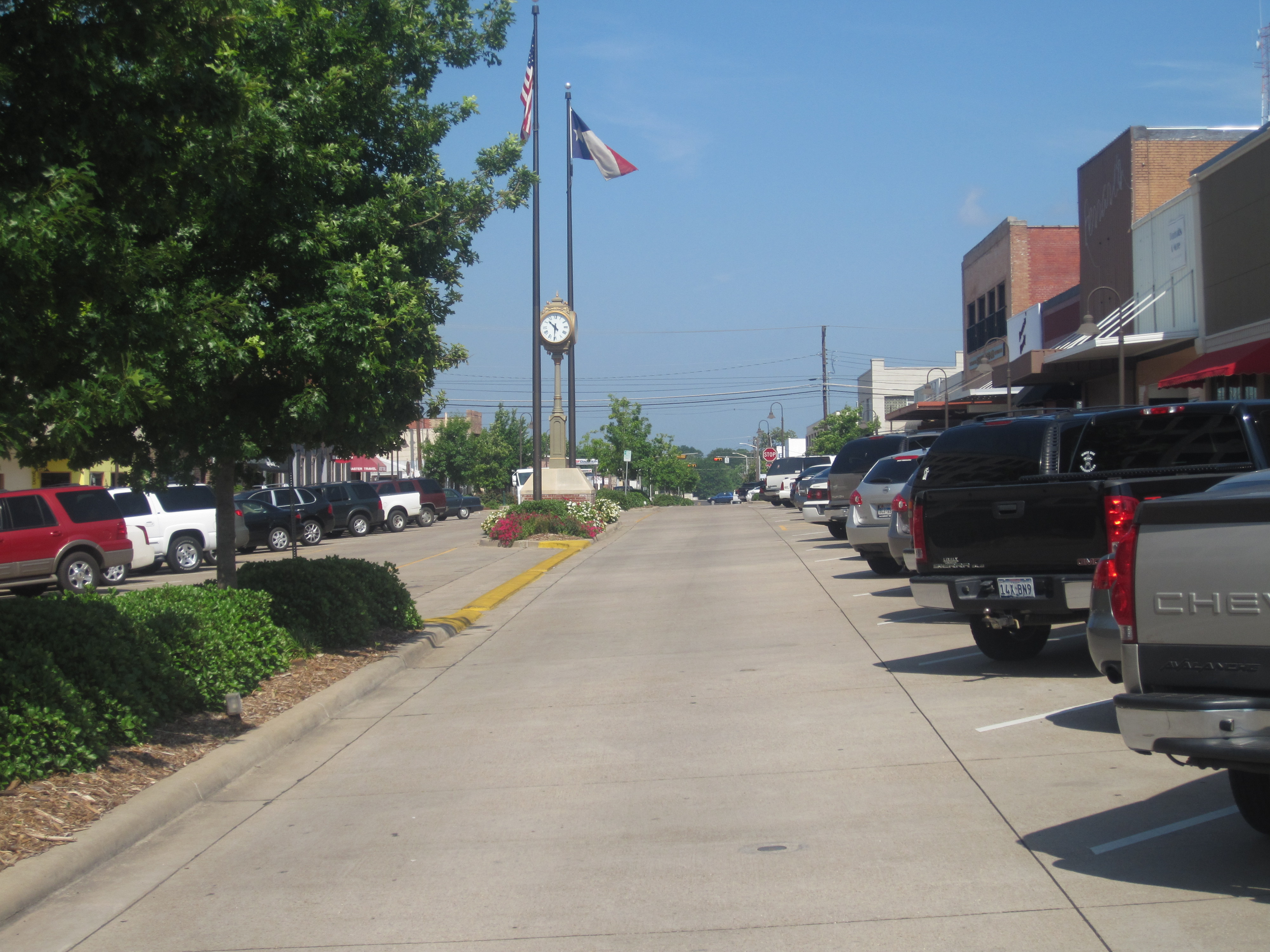 I took photo in Longview with a Canon camera.